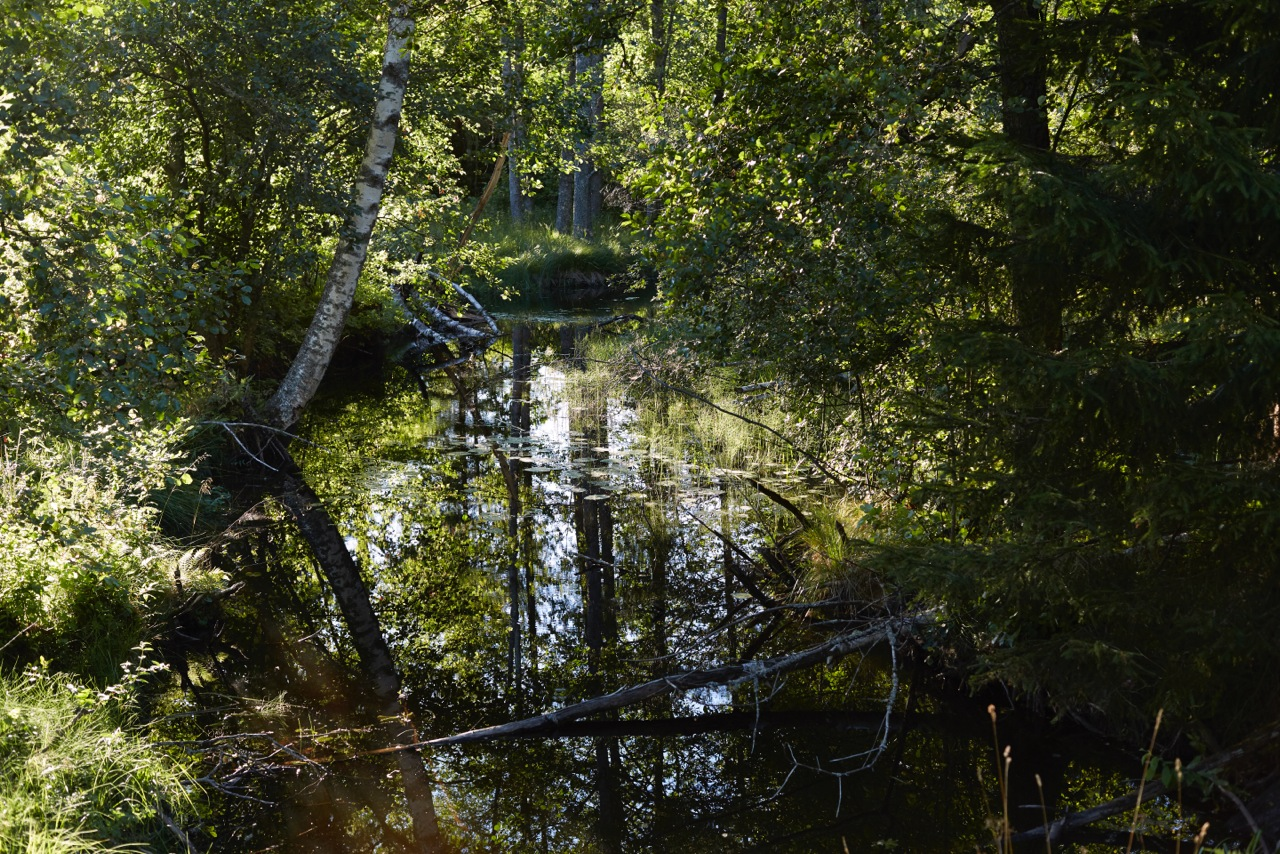 Streams in Sweden